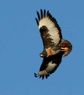 A Jackal Buzzard flying at Itala Game Reserve, KwaZulu-Natal, South Africa.